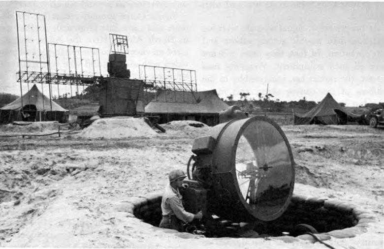 The SCR-268 was the US Army's standard early-war anti-aircraft radar system. In early use, as seen here, it was used to guide a searchlight which would then illuminate the target and track it visually from then on. The addition of lobe switching to later versions gave it the accuracy needed to directly guide the guns without the searchlight helping.